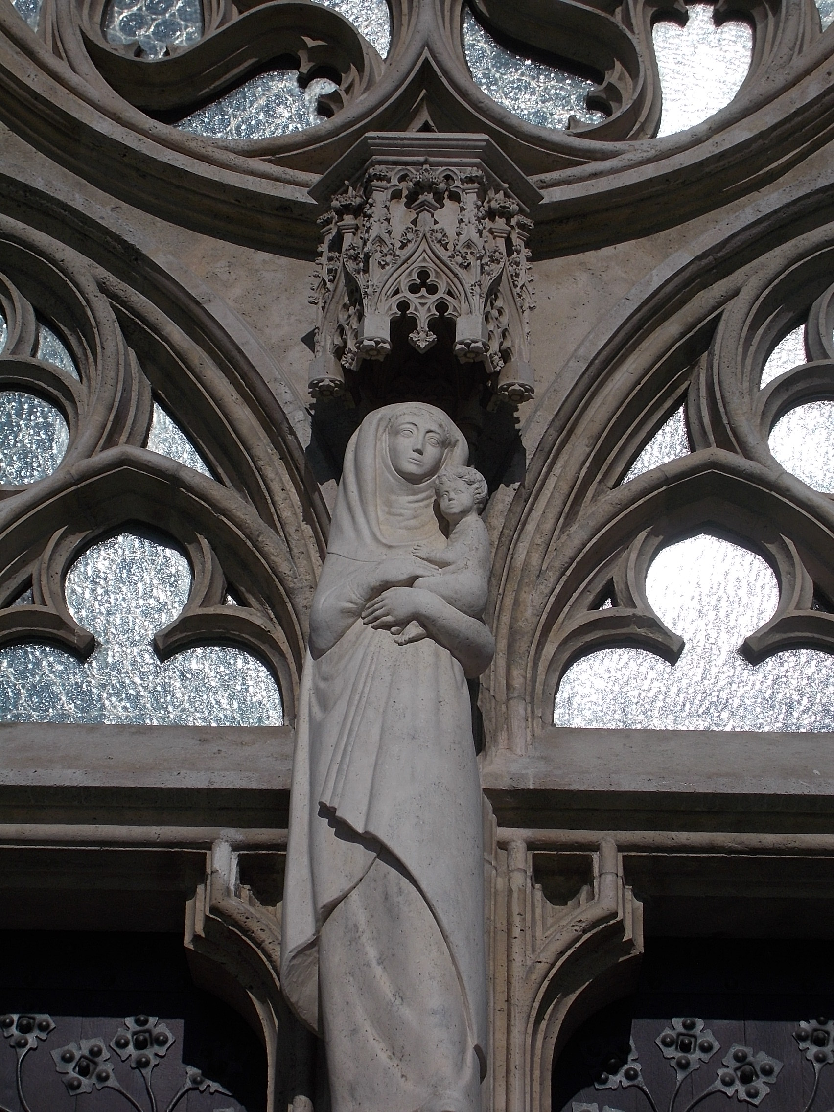 Matthias Church. Statue of Madonna with the infant Jesus by Erno Jálics, 1965. - Várnegyed neighbourhood, Budapest District I.